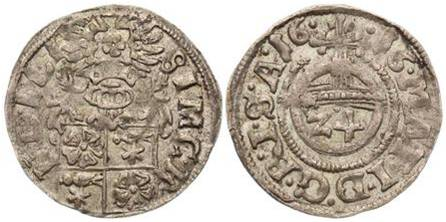 Coin of the Principality of Lippe: 1/24 Thaler, 1616